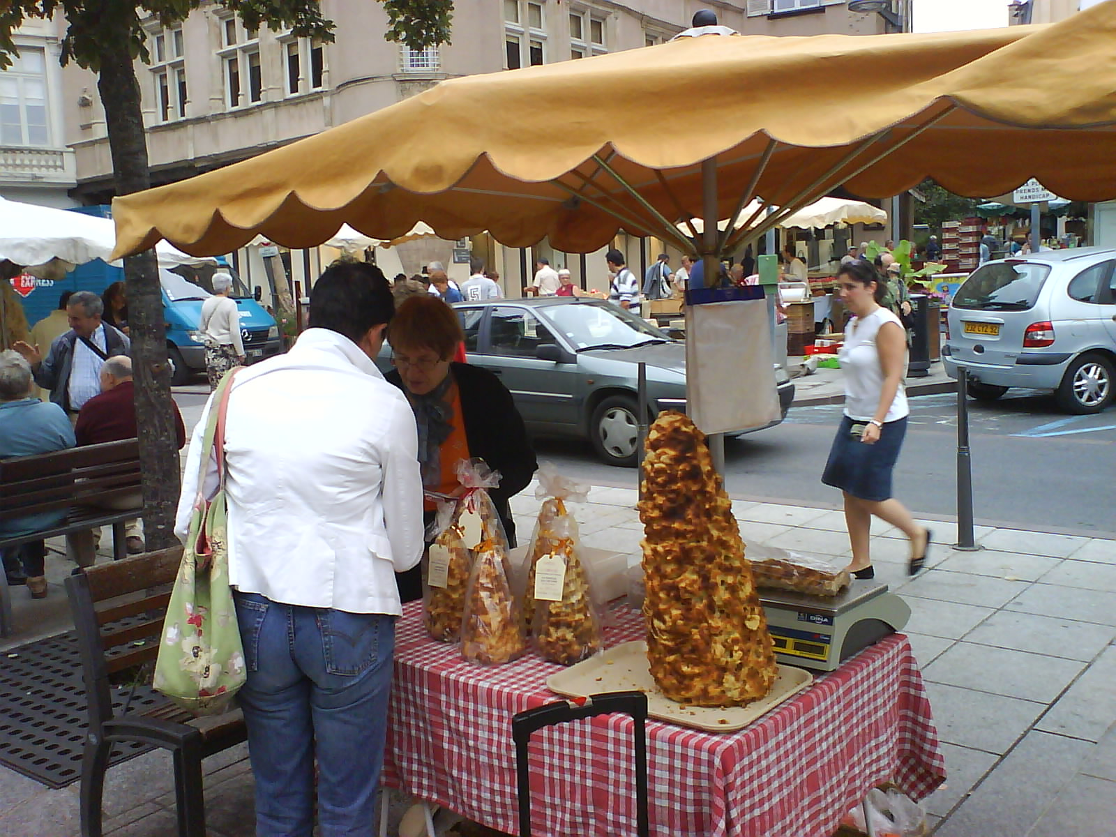 Market of Rodez, Aveyron, Midi-Pyrénées, France).